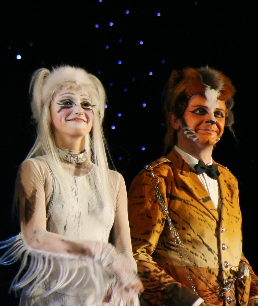 Anna Sąsiadek as Victoria and Wojciech Socha as Skimbleshanks in the musical "Cats" in Roma Musical Theatre in Warsaw, 2 December 2007.